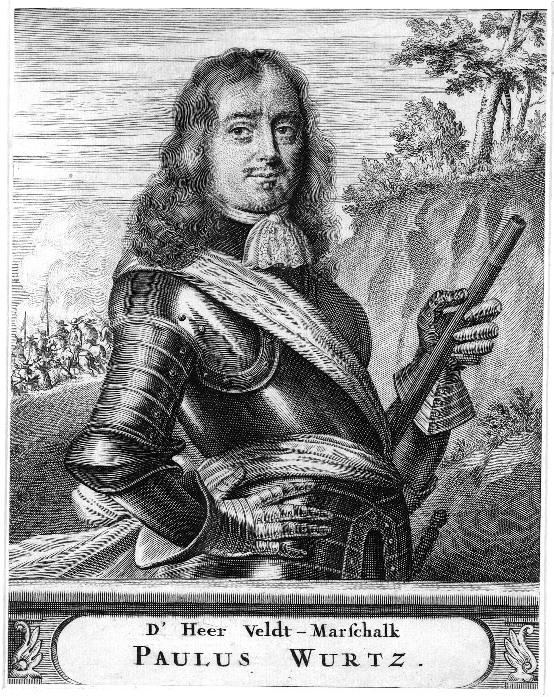 Paulus Wurtz (30-10-1612 / 23-03-1676) Veldmaarschalk van het Staatse leger in 1668 engraving 19.2 x 15 cm